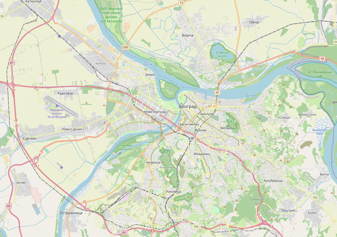 Location map of Belgrade Central. This map of Belgrade was created from OpenStreetMap project data, collected by the community. This map may be incomplete, and may contain errors. Don't rely solely on it for navigation. This map may be incomplete, and may contain errors. Don't rely solely on it for navigation.